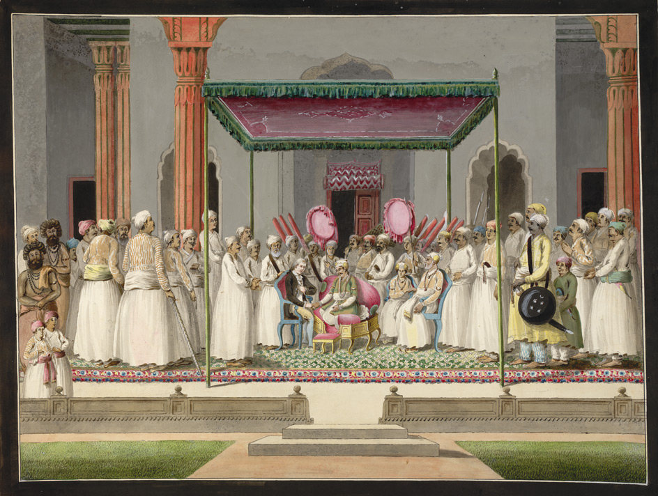 Watercolour of the Nawab Mubarak al-Daula of Murshidabad (1770-93) enthroned in durbar, by an anonymous artist working in the Murshidabad style, c. 1790-1800. Inscribed on the back in ink and pencil: 'Nabob's Durbar and reception of the English Resident at Morshedabad'. Murshidabad is situated on the banks of the Bhagirathi River, north of Calcutta in West Bengal. In 1704, the Nawab of Bengal transferred his capital here from Dacca; in 1757 a series of military disputes between the Nawab and the English East India Company resulted in the rise of English supremacy in Bengal. Although the town of Murshidabad continued to house the residence of the Nawab, it was no longer a place of political power. This drawing depicts the Nawab at durbar with the British Resident, Sir John Hadley D'Oyly. The Nawab's son, Babar 'Ali and a minister are also seated near the Nawab on European chairs. Sir John Hadley D'Oyly was the East India Copany's Resident at the Murshidabad court from 1780 to 1785.